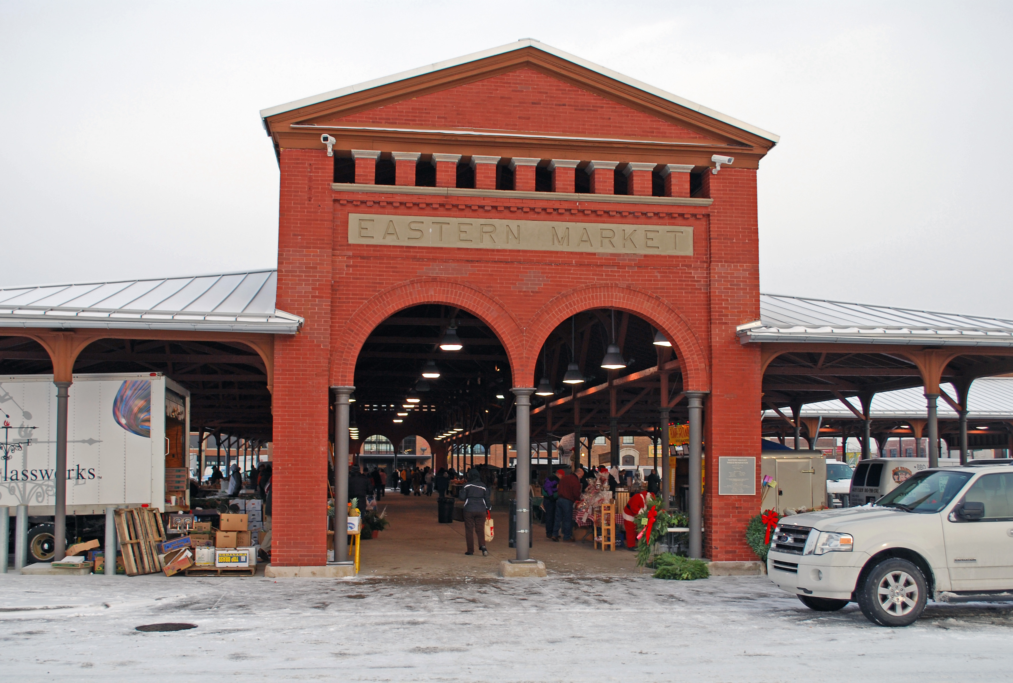 Facade of shed 2, Eastern Market Detroit MI, after renovation